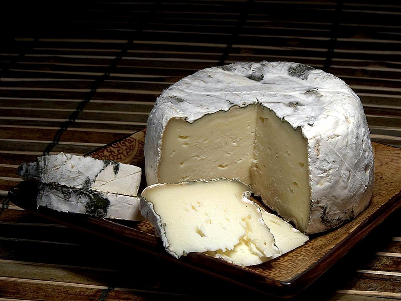 Image title: St. Pat cheese, variety made by Cowgirl Creamery, pt reyes station, marin county, san francisco bay area, California. Image from Public domain images website